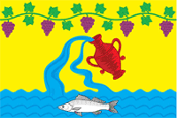 Flag of Kurchanskoe rural settlement, Krasnodar Territory, Russia